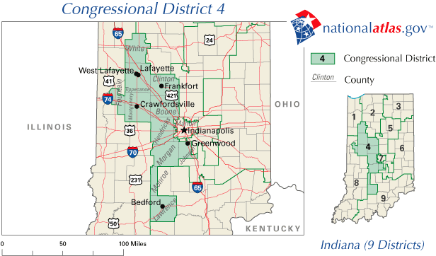 A map of United States House of Representatives, Indiana District 4.